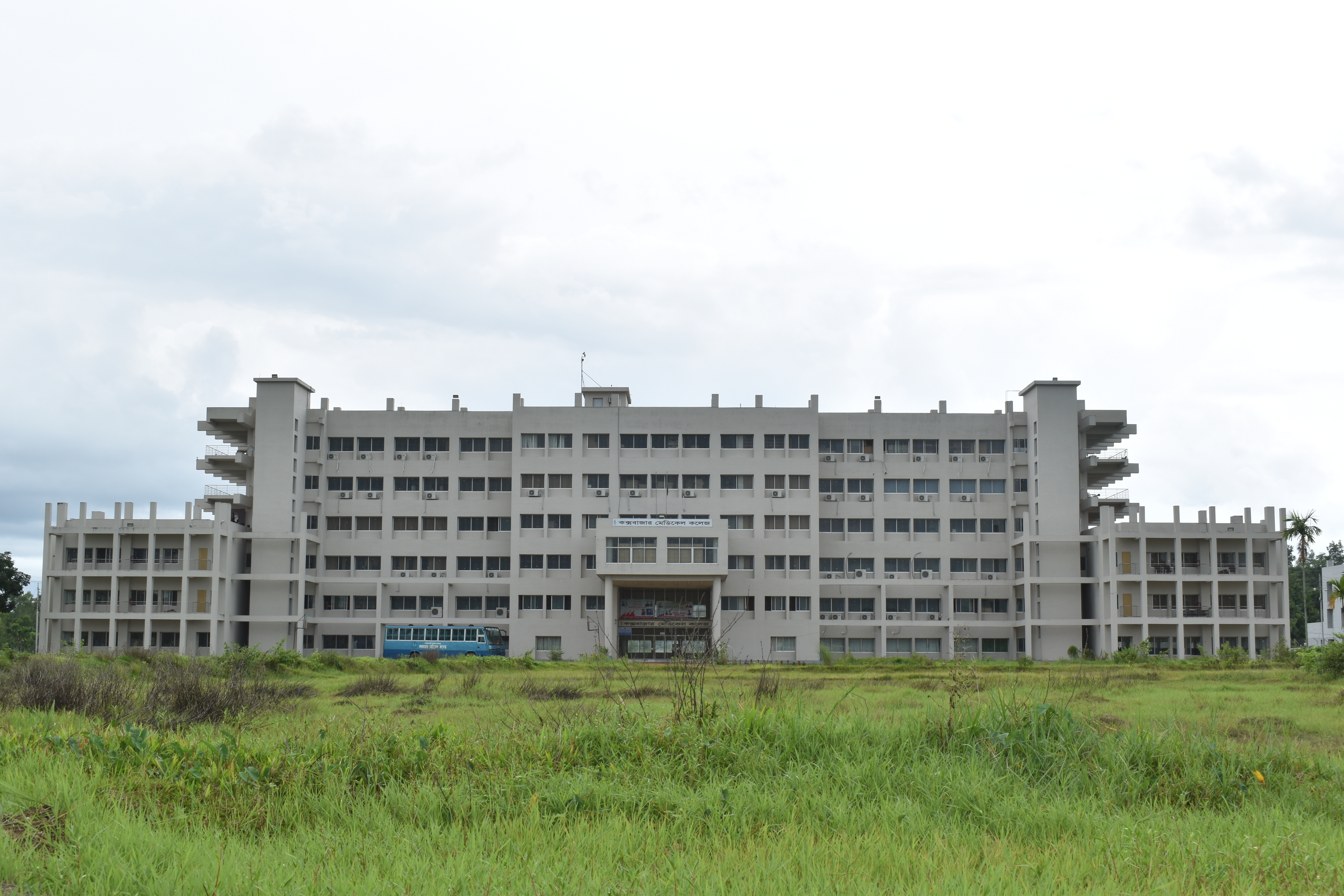 Snapped by Shouvick Chakma Tanza of CoxMC 6th Batch